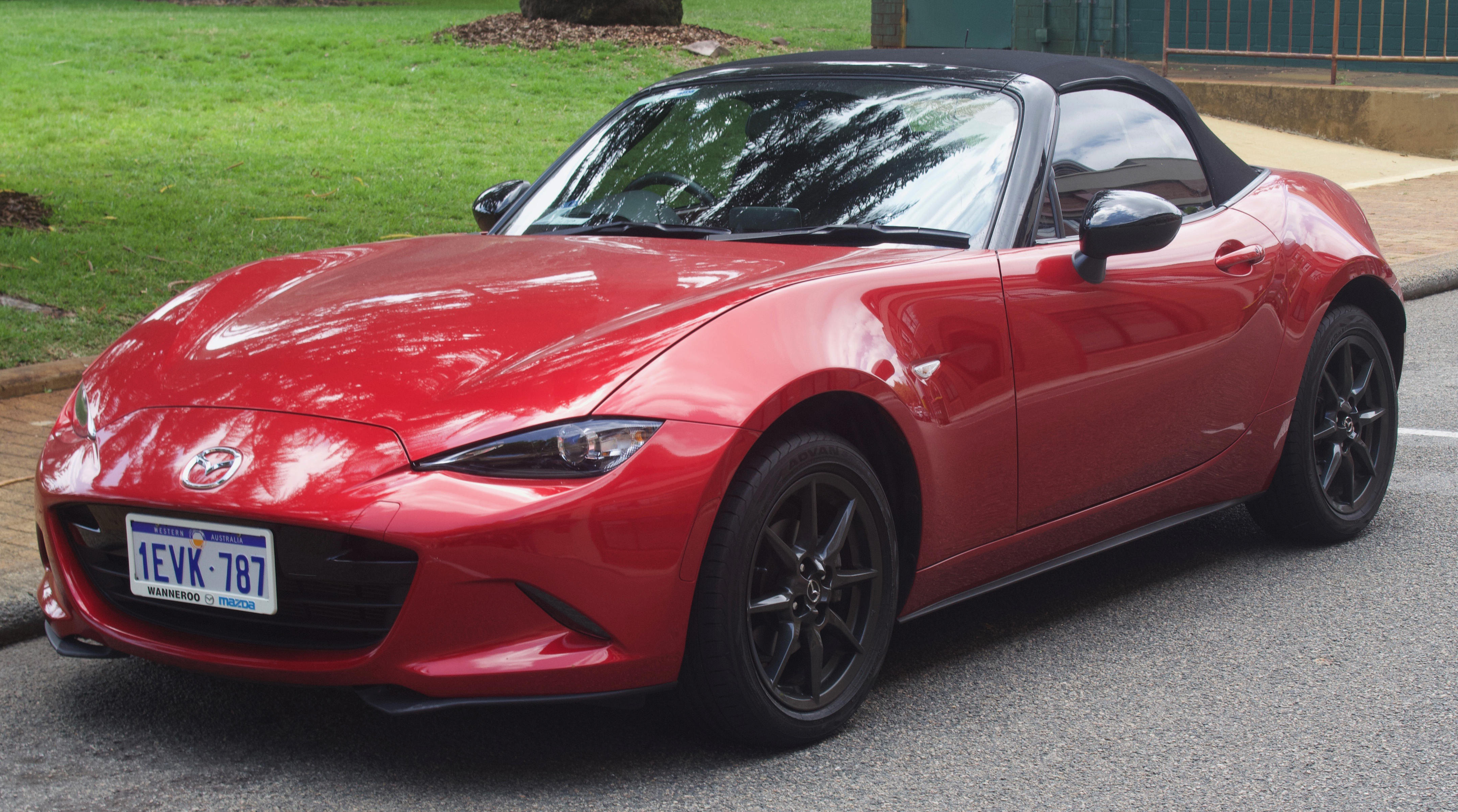 2015 Mazda MX-5 (ND) Roadster GT convertible. Photographed in Fremantle, Western Australia, Australia.